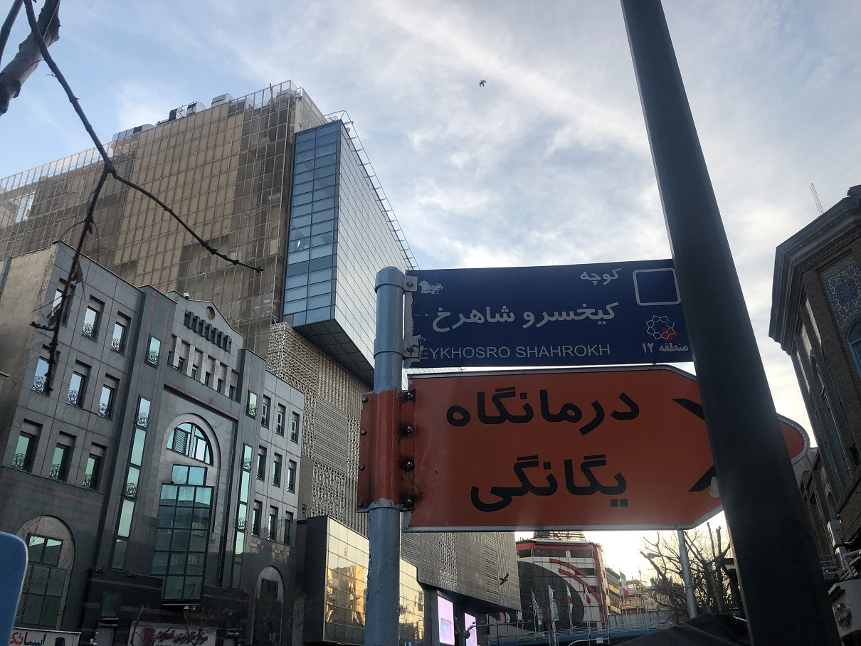 Keikhosrow Shahrokh street at Jomhori street